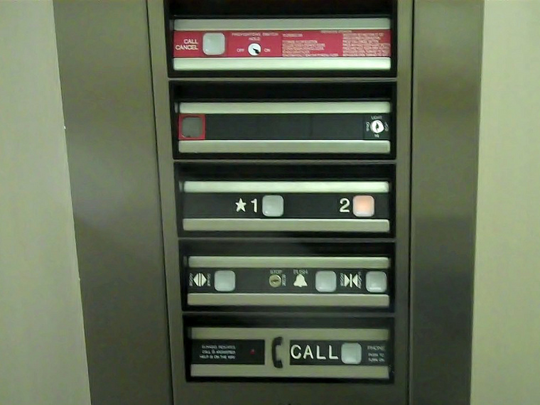 The interior fixtures of a 1998 Dover hydraulic elevator with Impulse fixtures at the Bob's Discount Furniture in Nashua, New Hampshire. I took this picture and release this under the public domain.